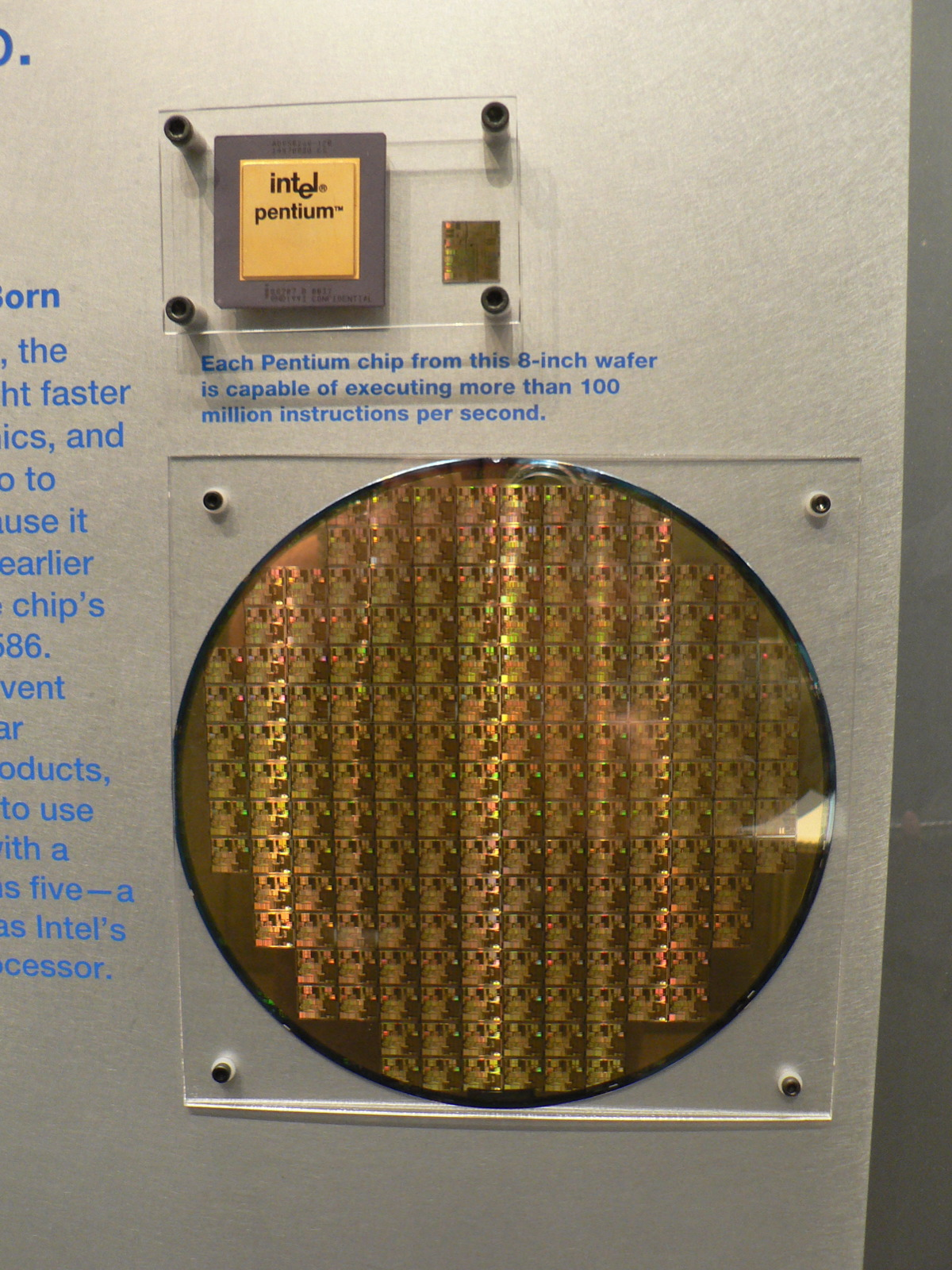 8-inch silicon wafer with multiple intel Pentium chips on it